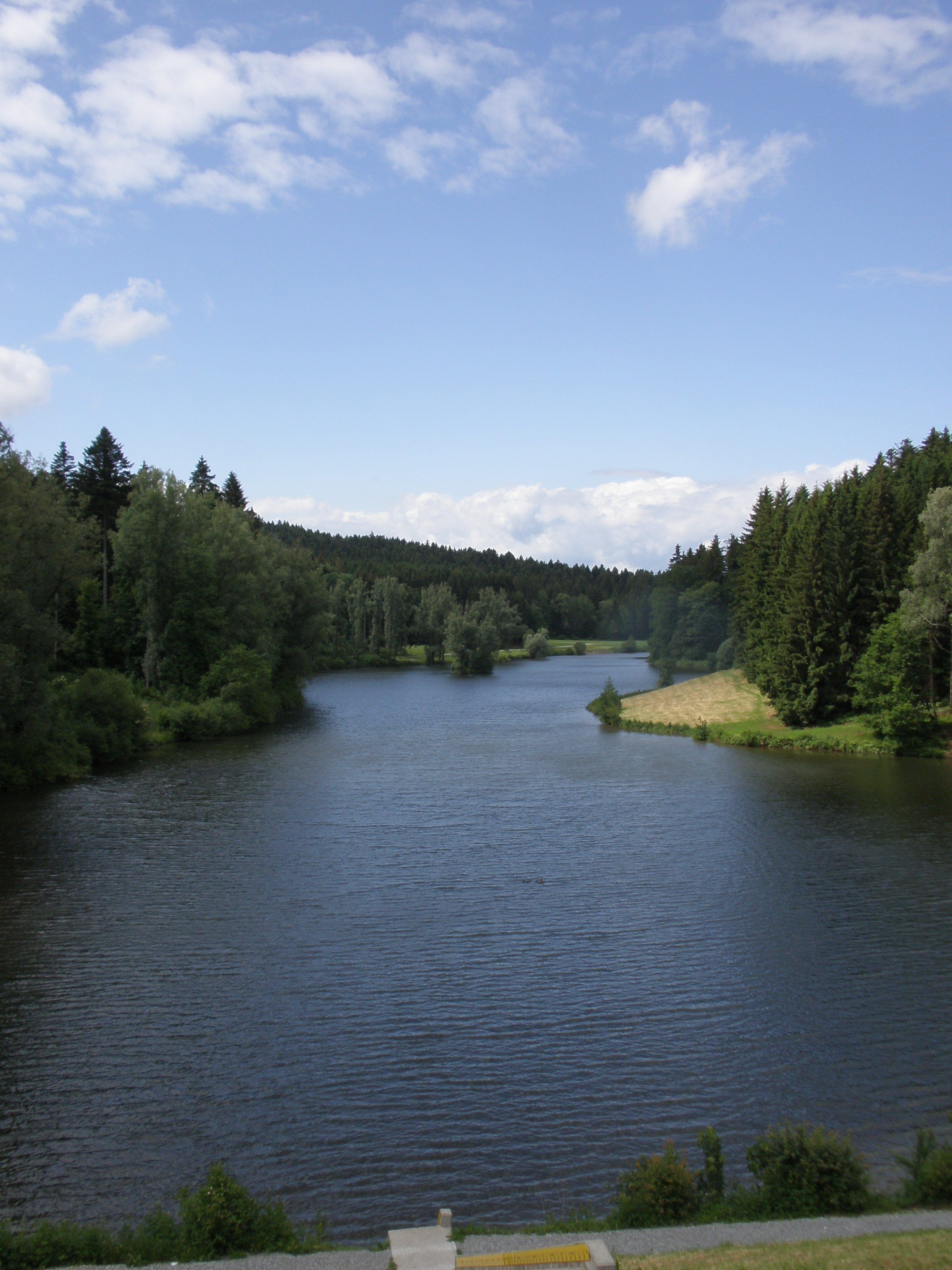 Flood retention basins Rehnenmühle between Durlangen and Tierhaupten (district of Täferrot)